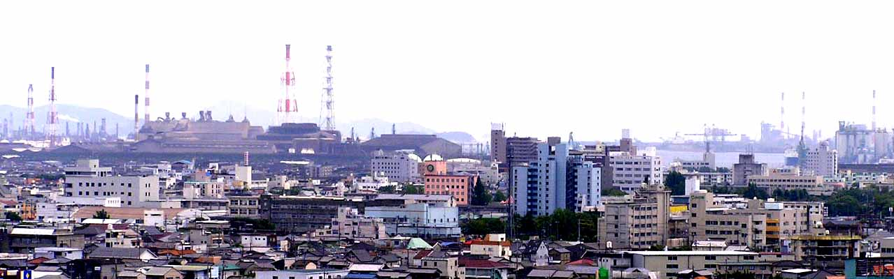 The Mizushima town 2007